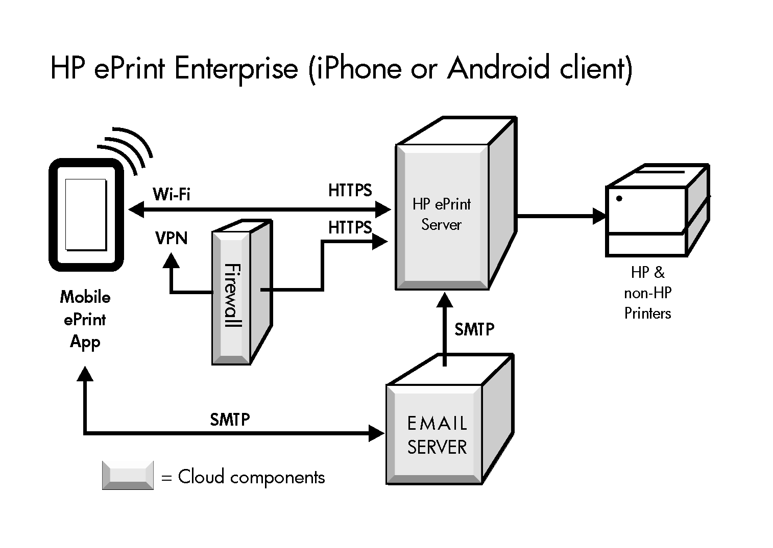 Figure 5. ePrint data flow for iPhone and Android devices.